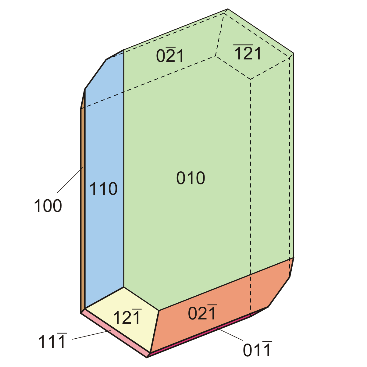 Drawing of a mounanaite crystal (old triclinic setting); reference: Fabien Cesbron & Pierre Bariand (1969): La mounanaïte, nouveau vanadate de fer et de plomb hydraté. - Bulletin de la Societe française de Minéralogie et de Cristallographie, 92, S. 196–202.